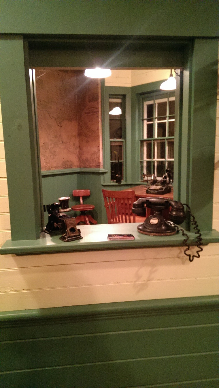 Ticket window at the Contoocook Railroad Depot, restored to approximately 1910 condition, in November 2013